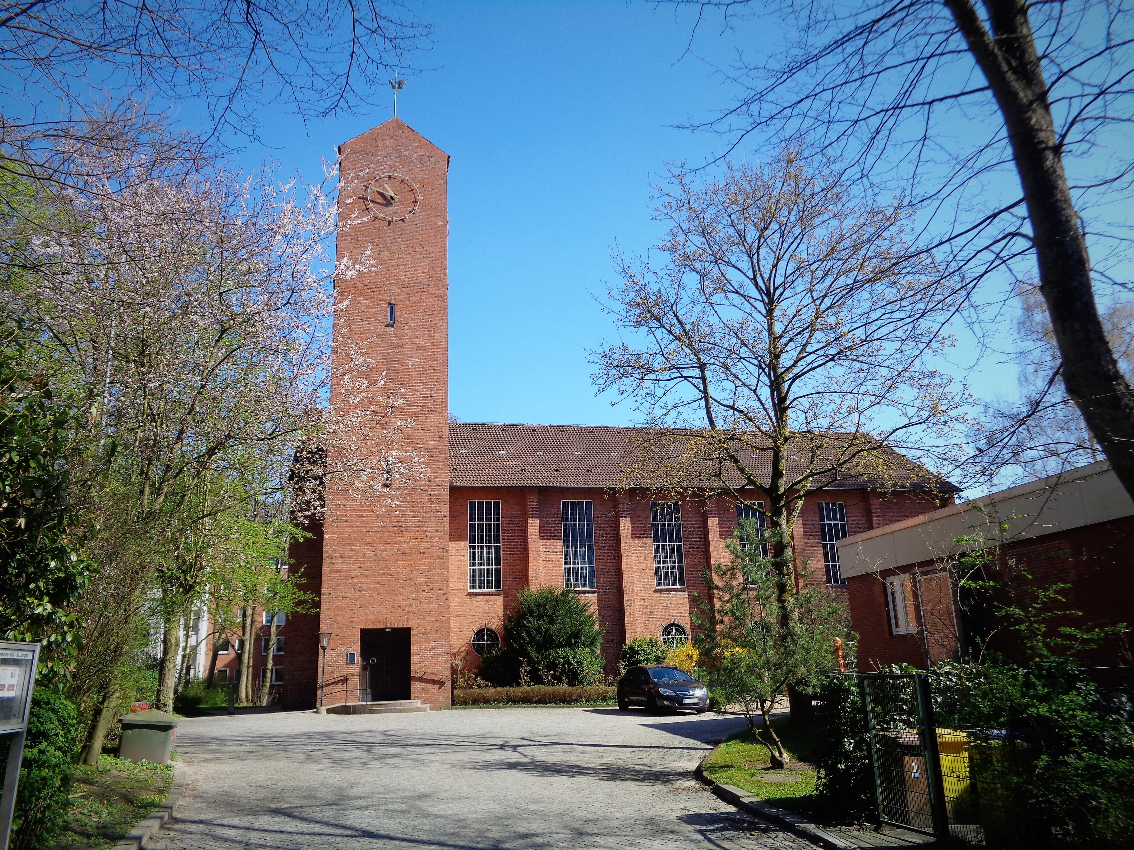 The St.-Jürgen-Church in Kiel. View from the south